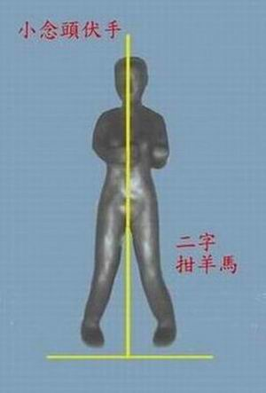 wing tsun-little idea form